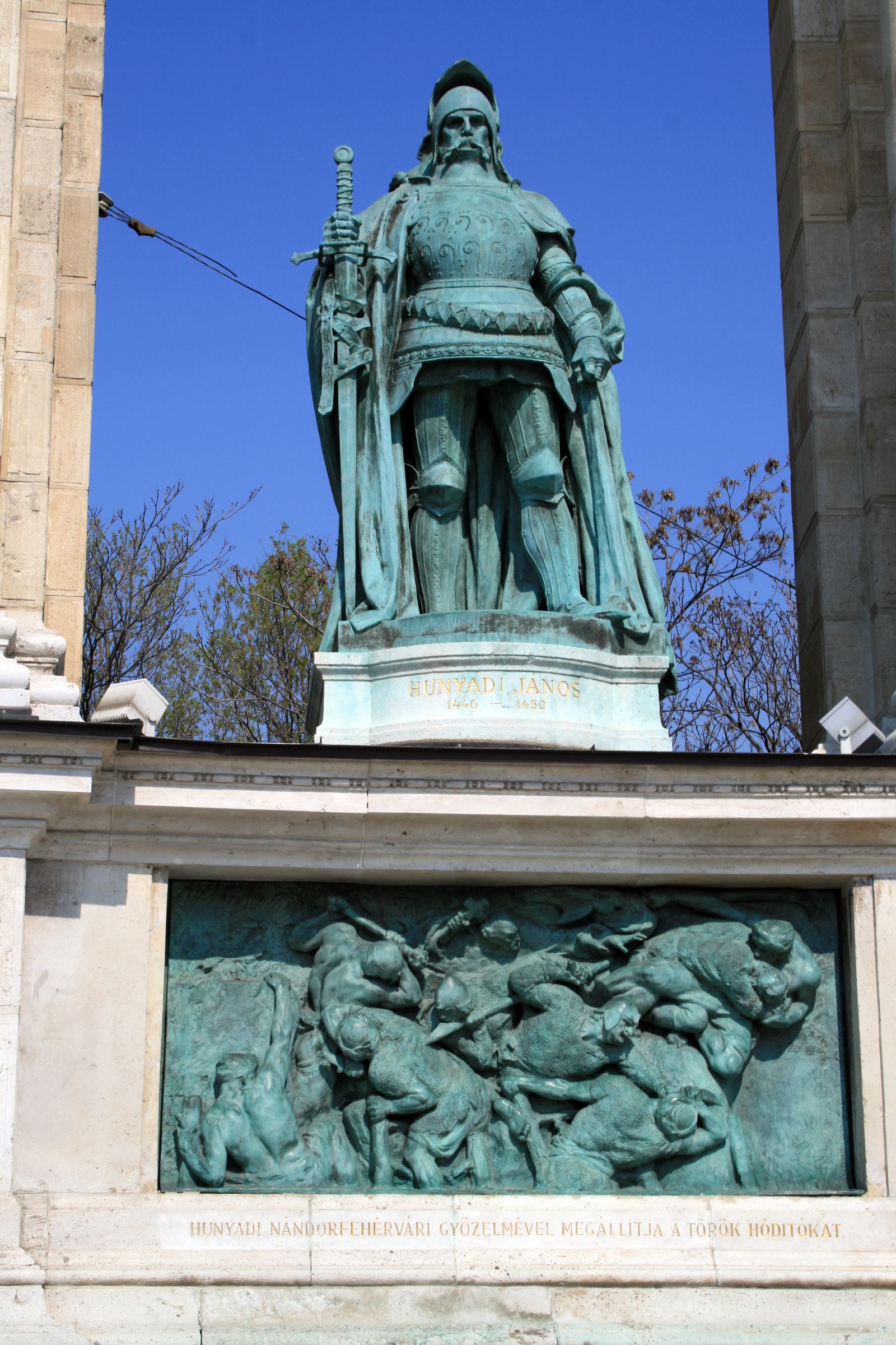 Statue of John Hunyadi or Hunyadi János, Millenium Monument on Heroes' square, Budapest, Budapest, Hungary